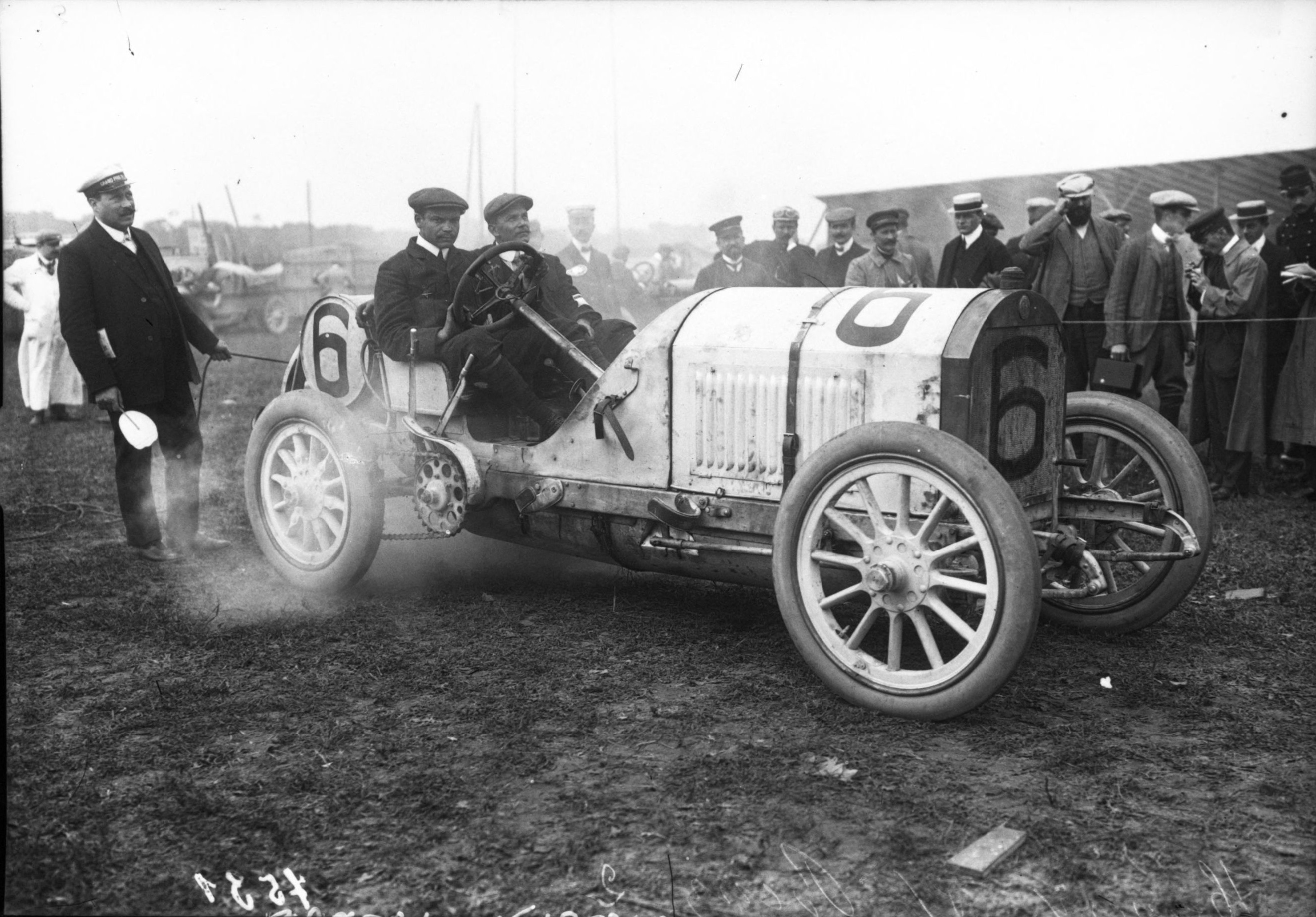 Victor Hémery in his Benz at the 1908 French Grand Prix at Dieppe.